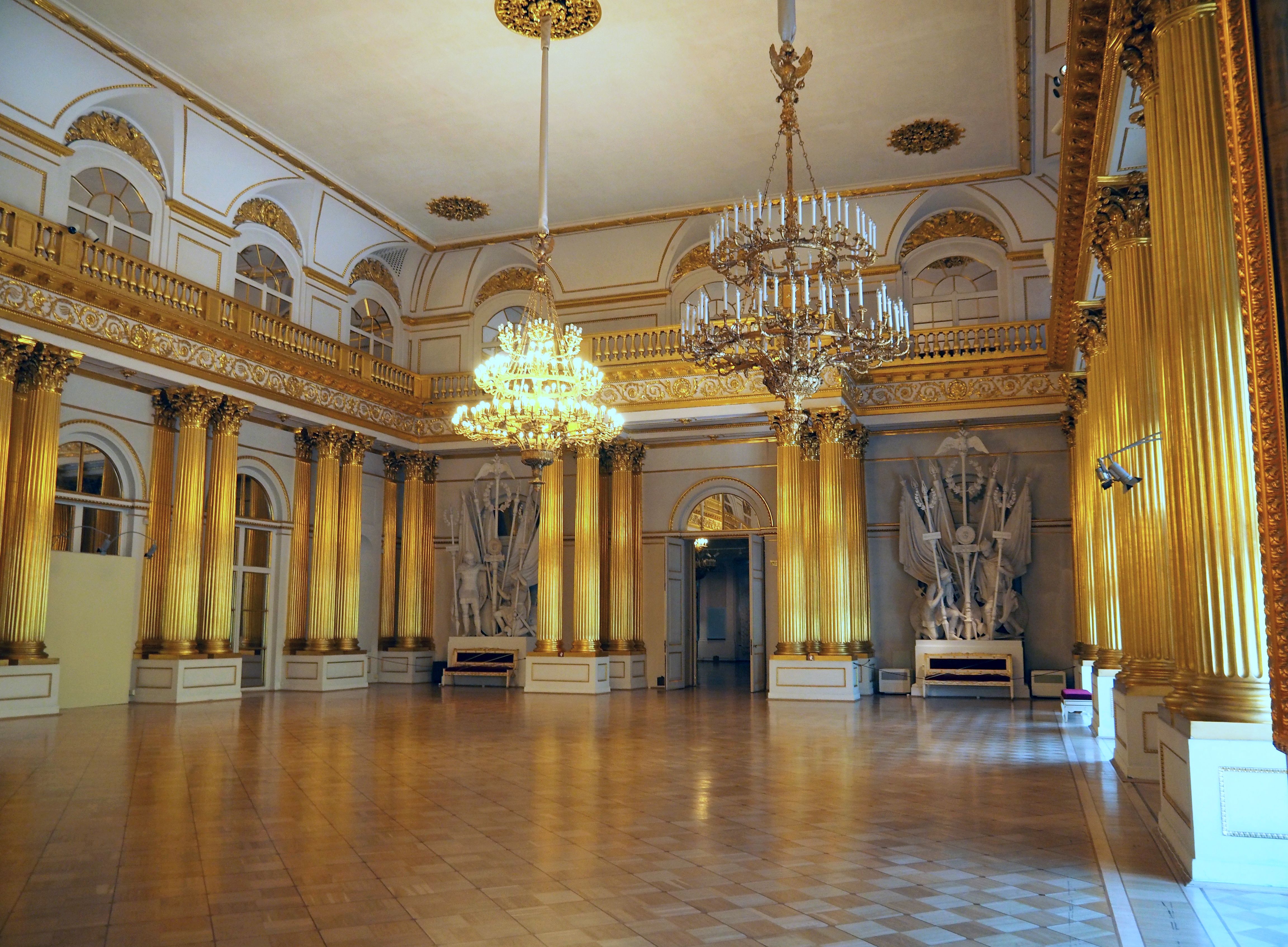 Amorial Hall at the Winter Palace Saint Petersburg